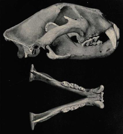 Jaguar skull